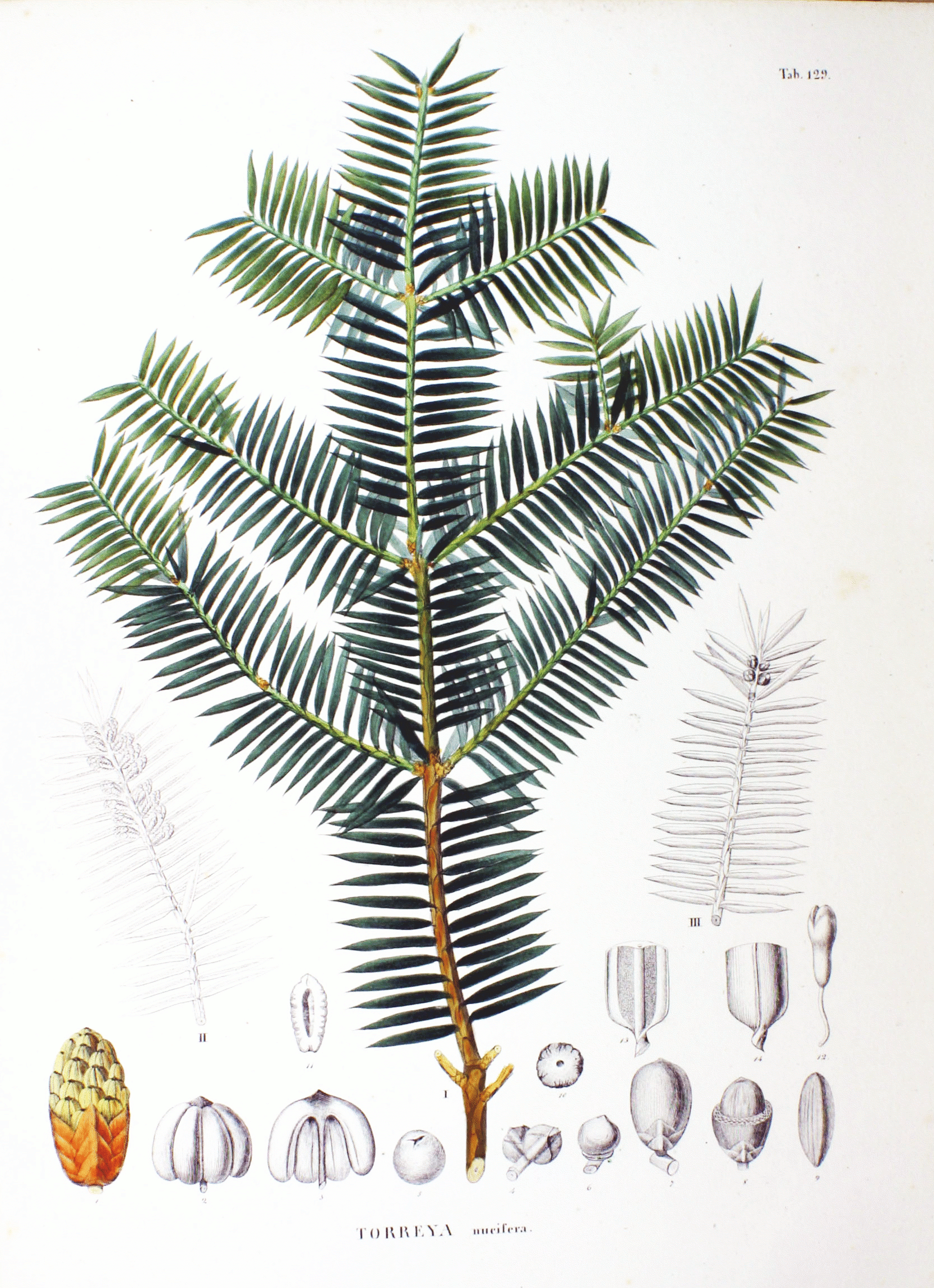 Torreya nucifera Plate from book